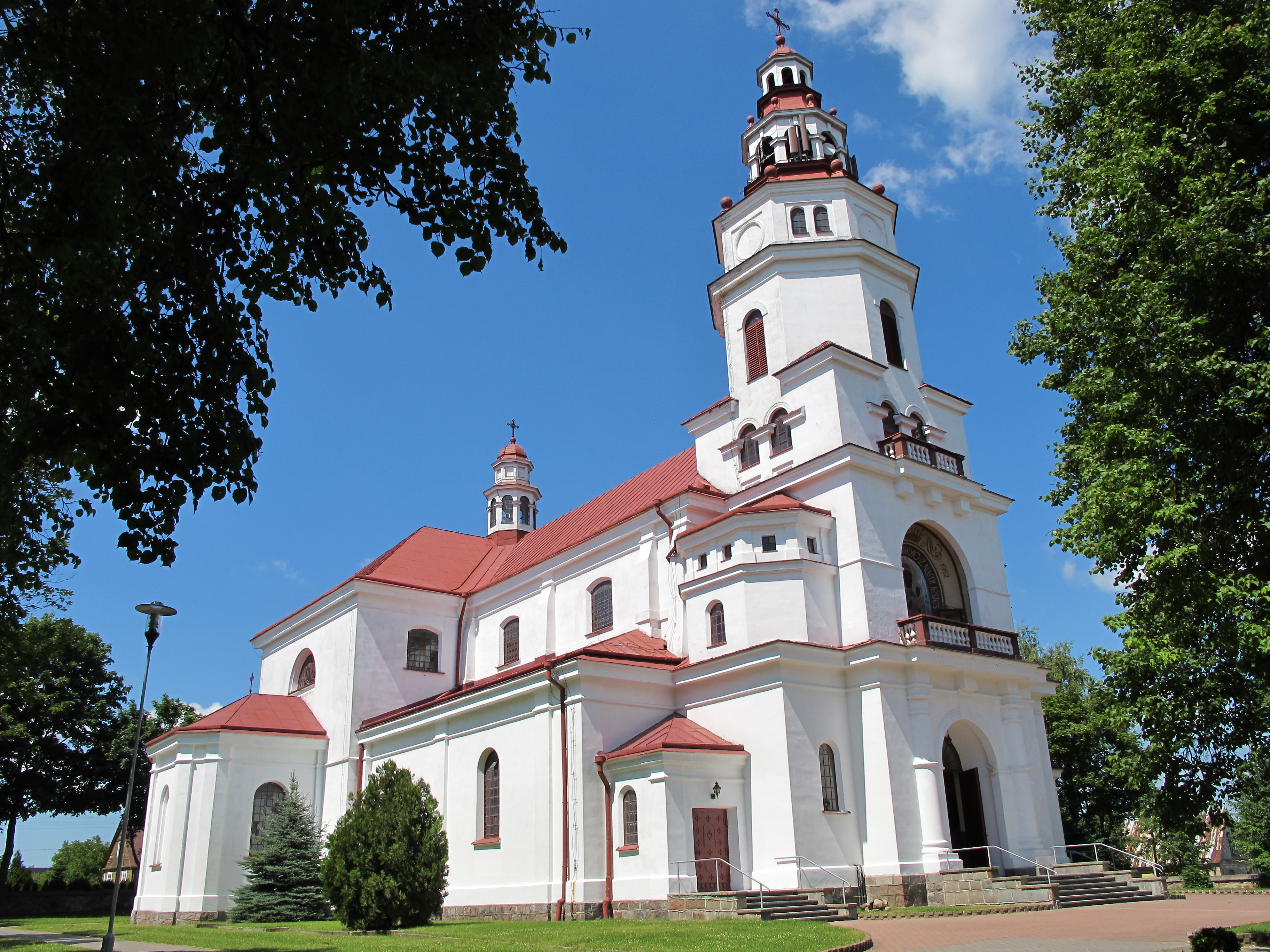 Church of Saint Mary of Częstochowa, Ks. Małynicza 1 street, Mońki, gmina Mońki, podlaskie, Poland